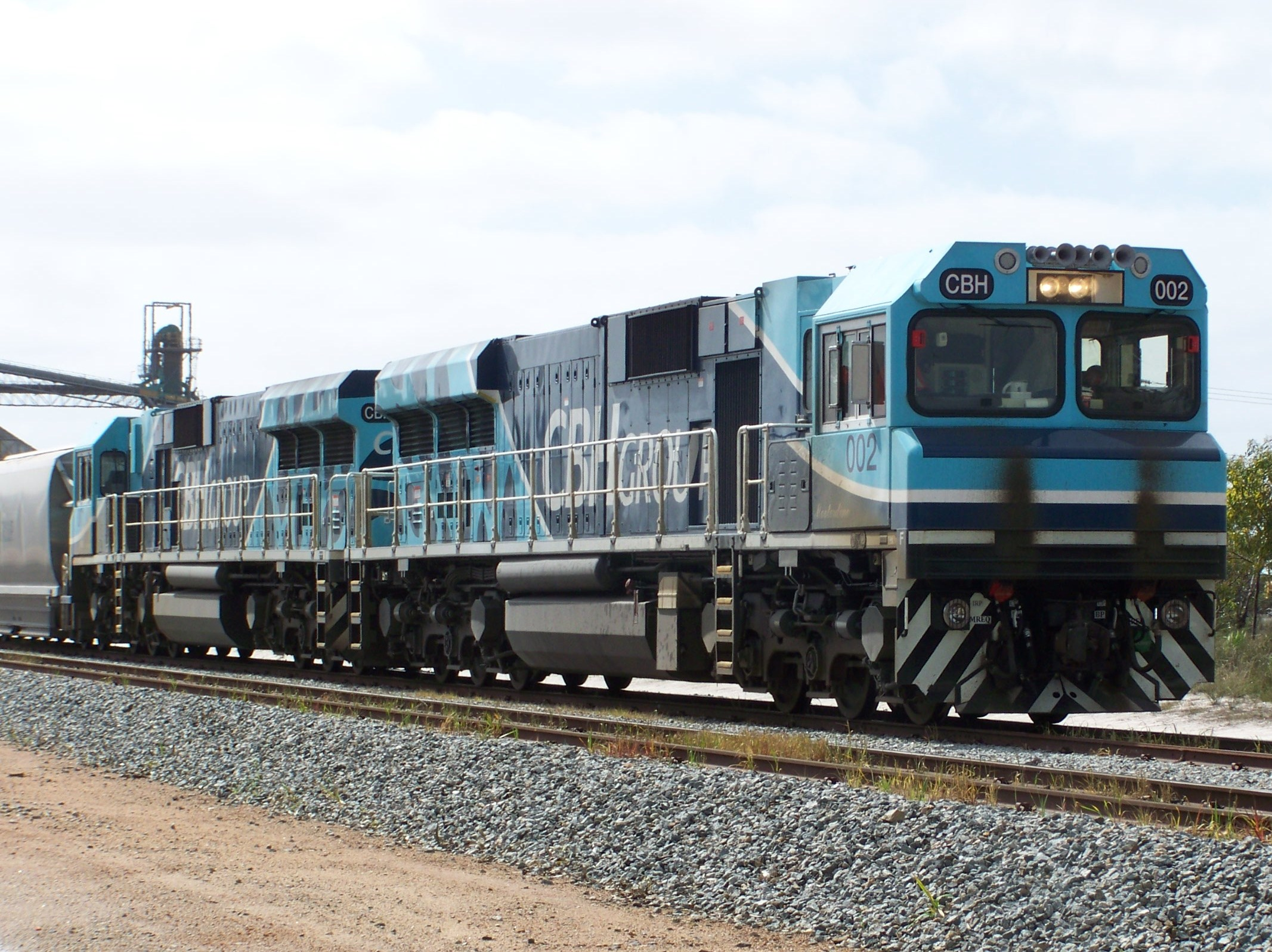 CBH class locomotives nos. CBH002 Mooterdine and CBH001 Yilliminning, at the CBH Group collection point at Cranbrook, Western Australia. Photograph by Daryle Phillips 2012